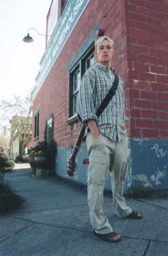 A photo of Shawn McDonald in front of the Banana Warehouse in Eugene.